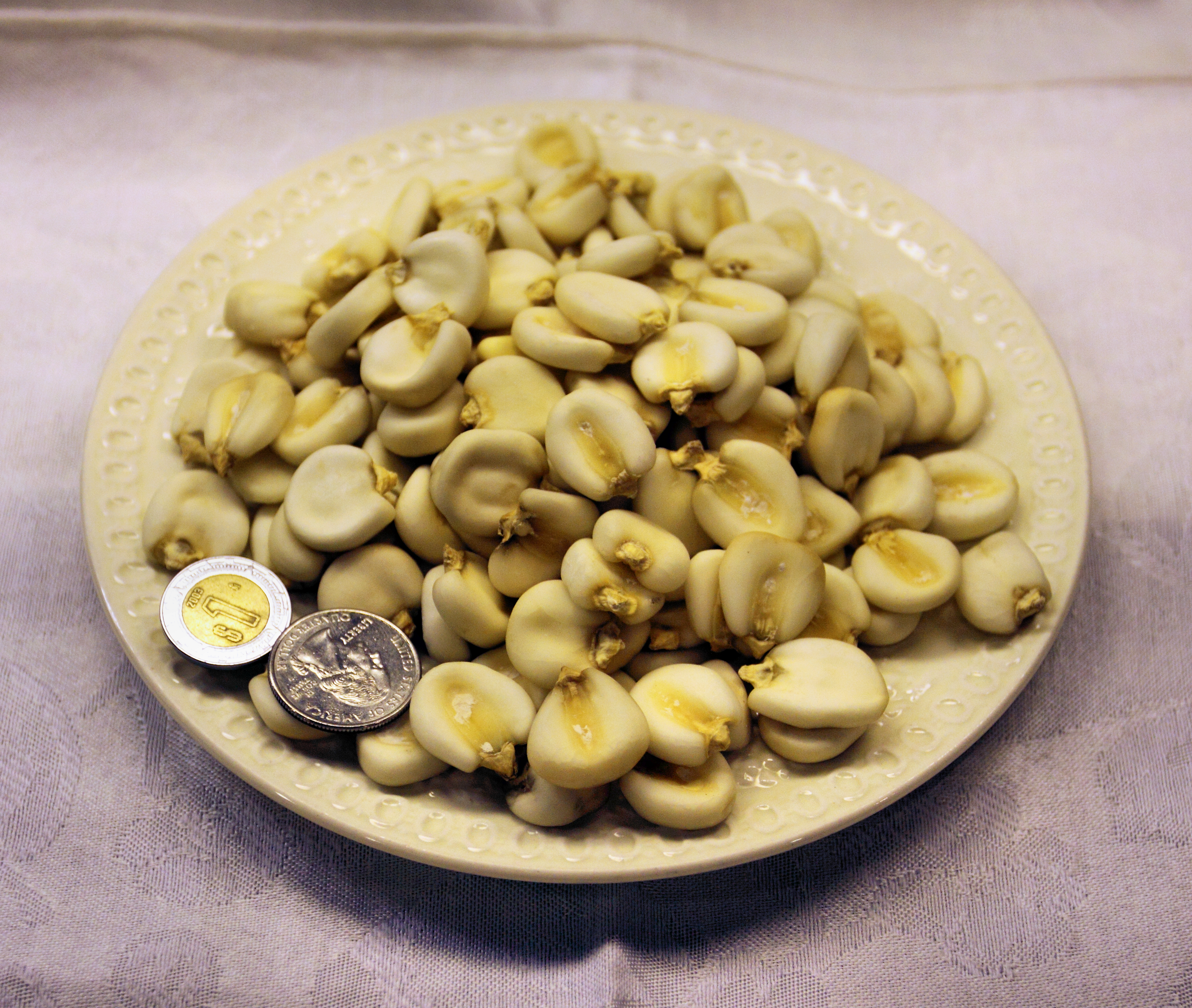 Dried Maize Mote (Hominy) from the Mercado Benito Juárez in Oaxaca de Juárez, Oaxaca, Mexico. A US Quarter and Mexican Peso are used for size comparison.